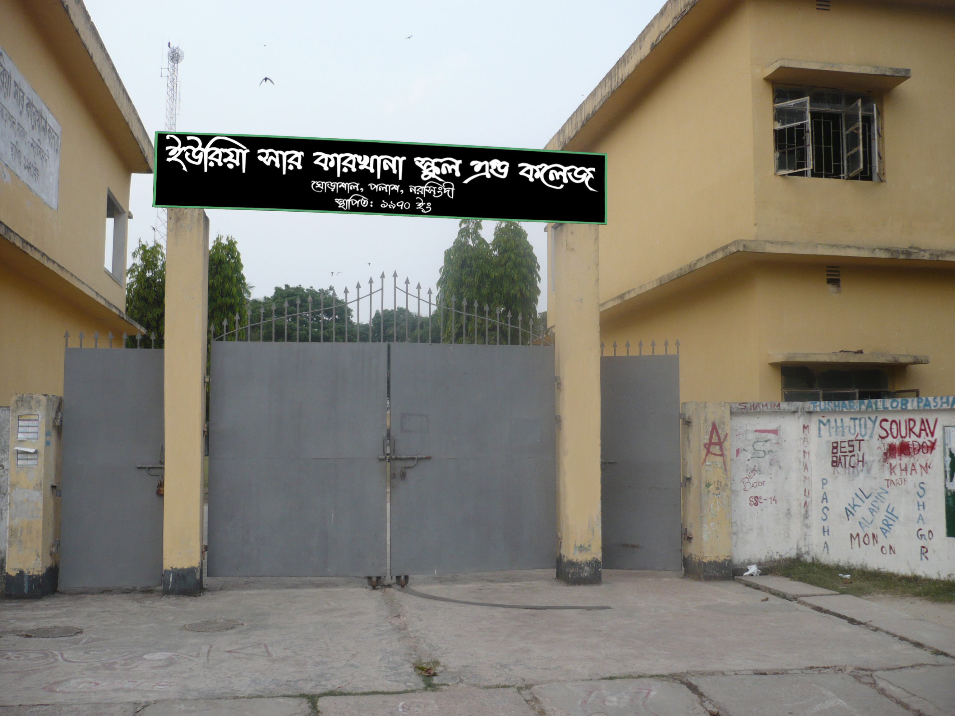 USKC-Edited